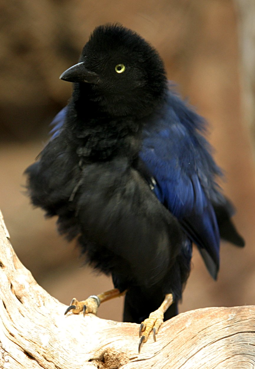 Purplish-backed Jay at the henry Doorly Zoo in Omaha, Nebraska.